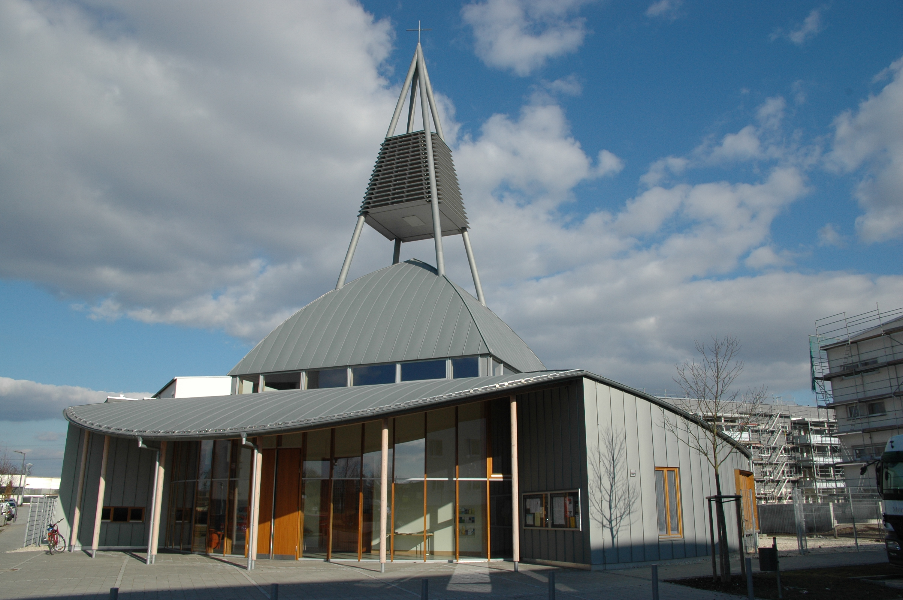 Evangelisch-lutherische Maria-Magdalena-Kirche in Burgweinting